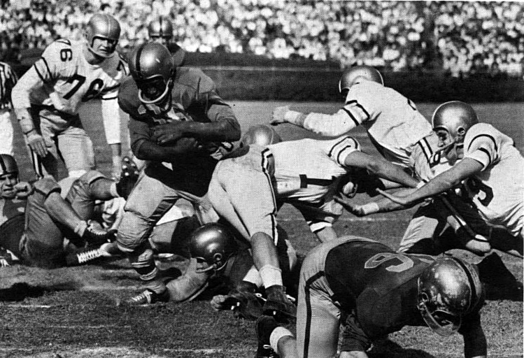 In 1956, the University of Pittsburgh's Bobby Grier was the first to break the Sugar Bowl's color-barrier.